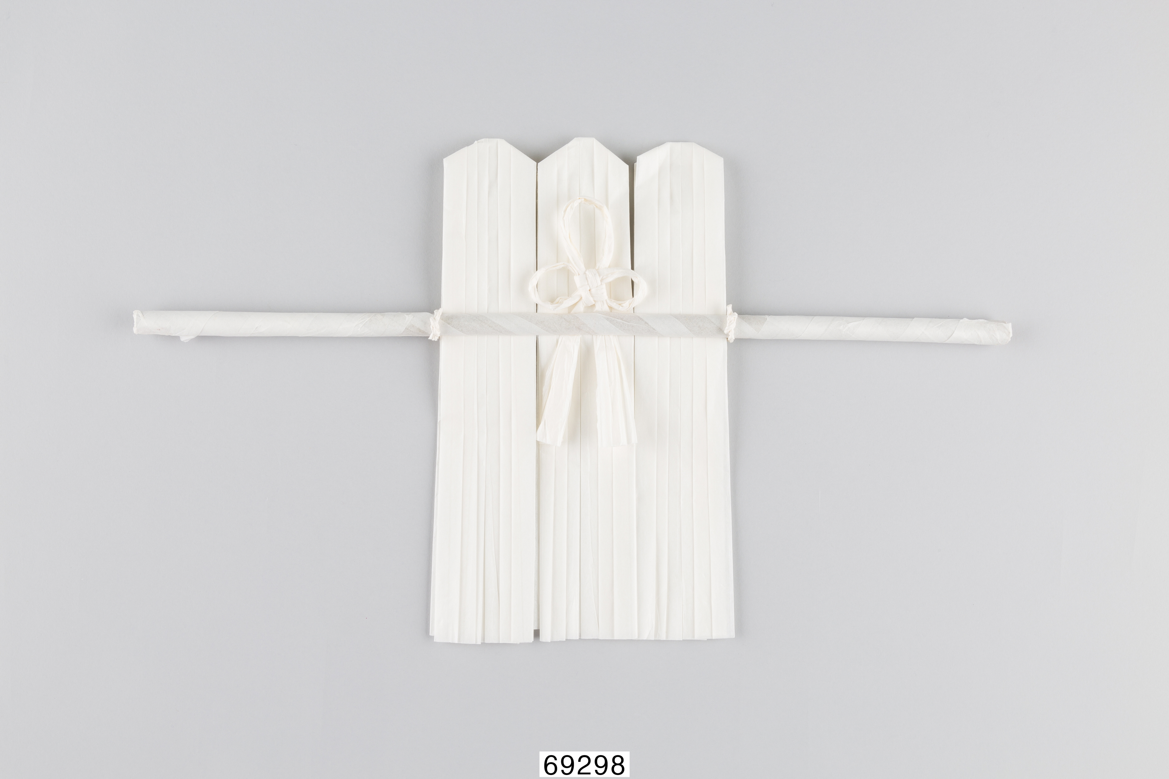 The yukgobi symbolizes the Mengdu triplets, the patron gods of Jeju shamans.